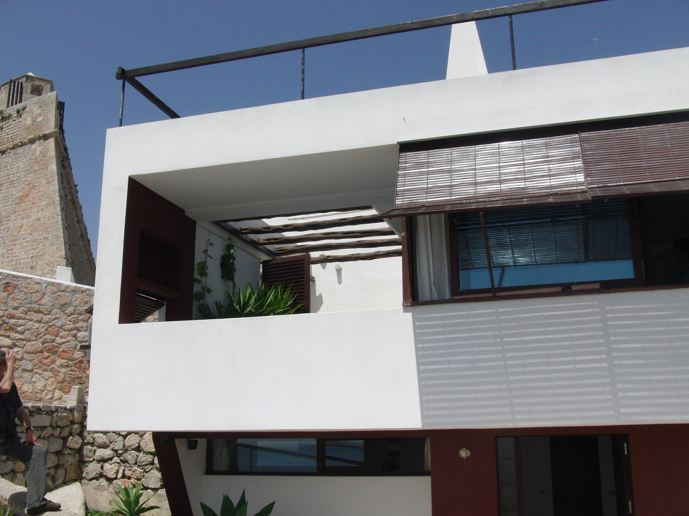 Casa Broner his private home and studio (Architect and painter) today museum, Ibiza, Spain